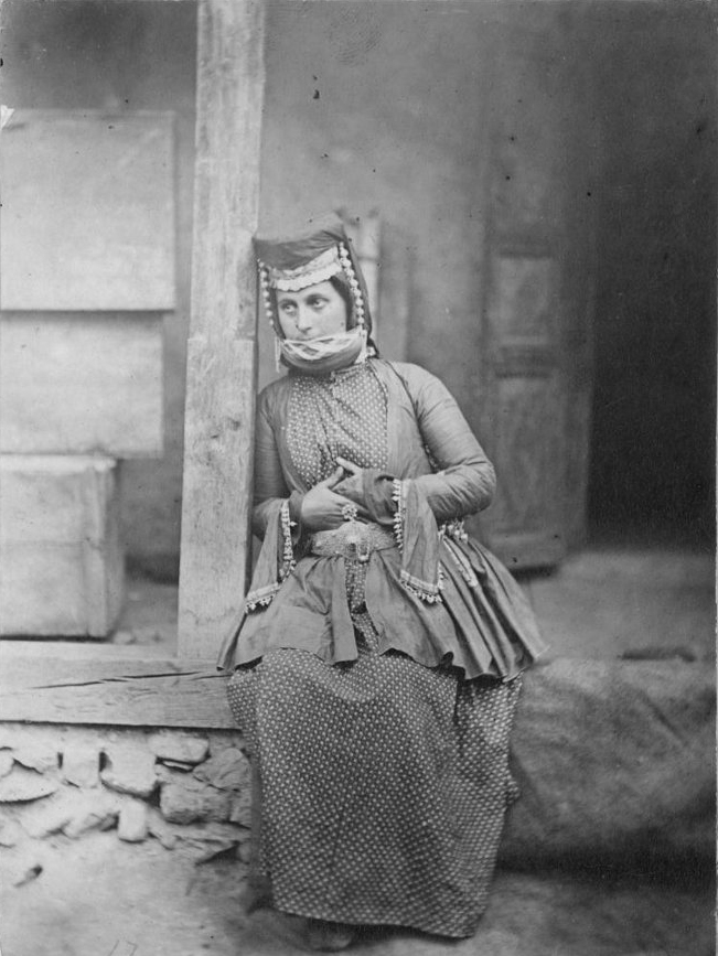 Udi girl in national cloths from Vartashen (now Oguz).